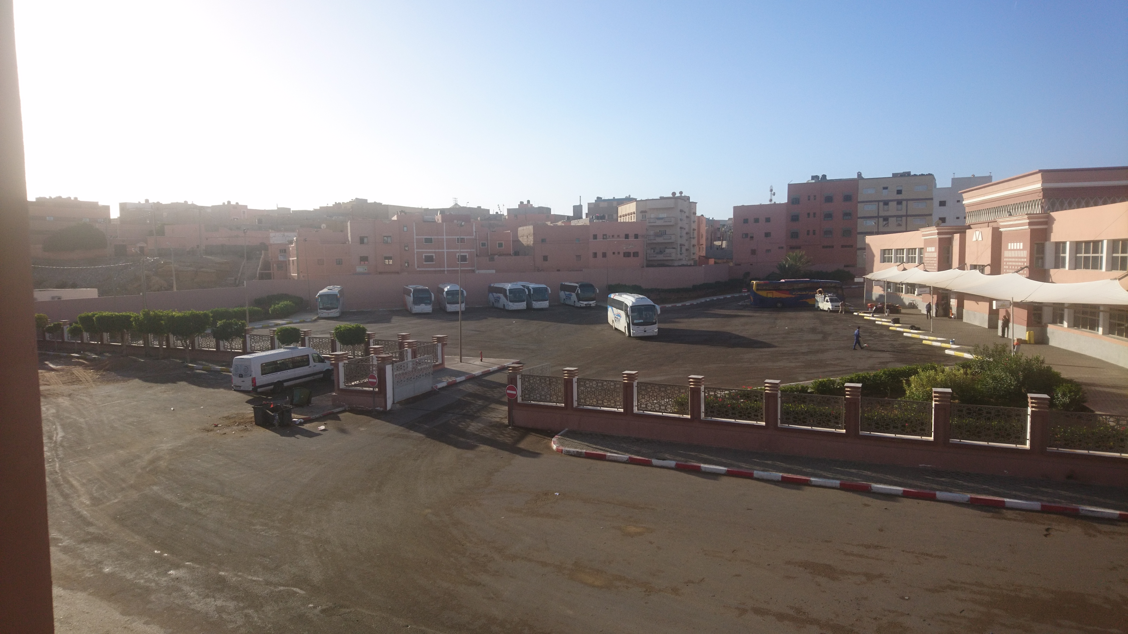 Laayoune Bus Station